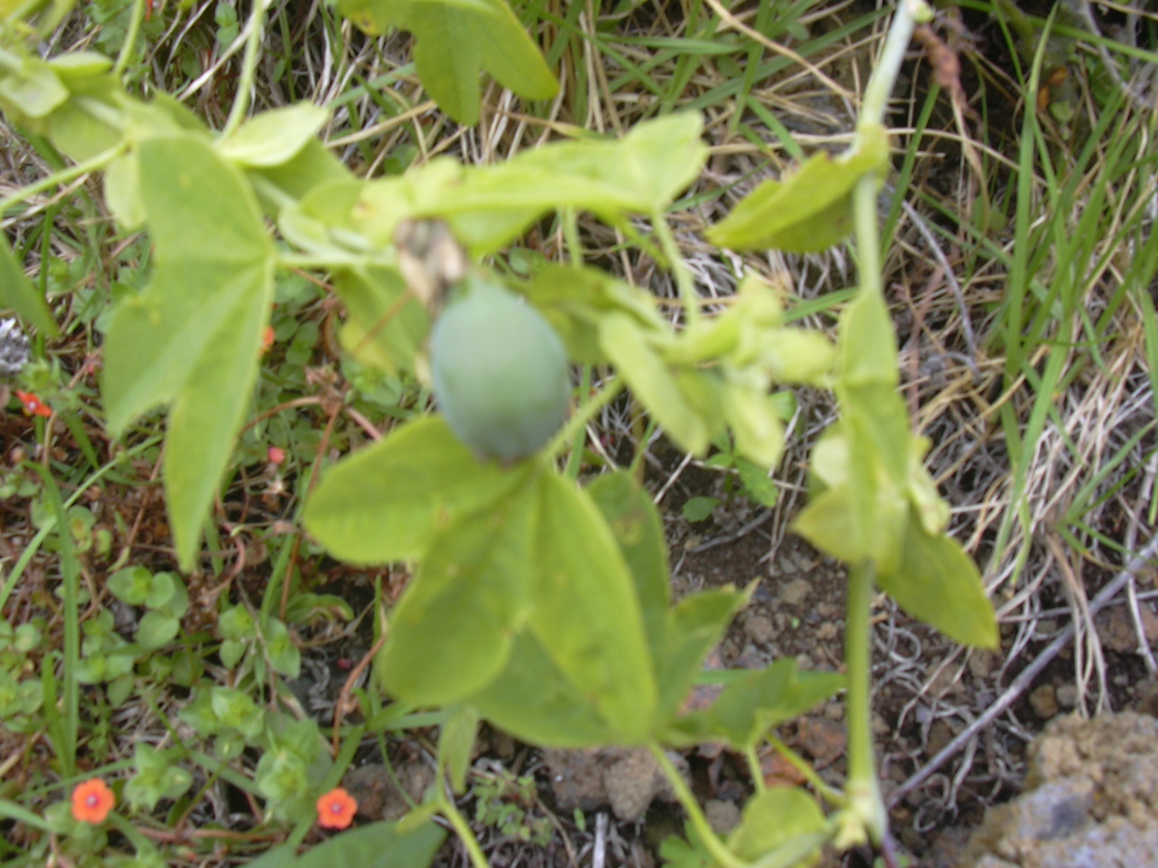 Passiflora subpeltata (leaves and fruit). Location: Maui, Auwahi